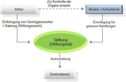 Organigramm einer Stiftung